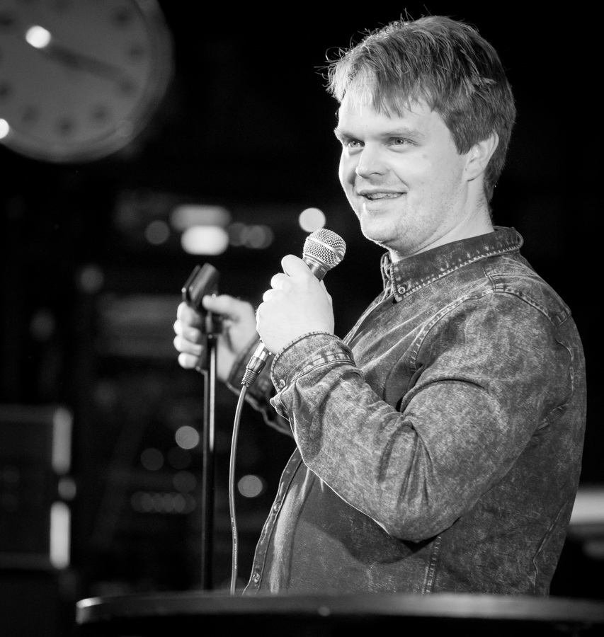 Tom Styve on the stage at Humornieu on Parkteatret. The comedy event took place on 26. January 2017 in Oslo as part of Crap Comedy festival 2017. Lineup: Morten Ramm (comedian) Vegard Tryggeseid (comedian) Amanda Erlandsen (comedian) Martin Marki (comedian) Erlend Mørch (comedian) Bjørn Asgeirsson (comedian) Peder Birkelund (comedian) Tom Styve (comedian) Unidentified (keyboard)